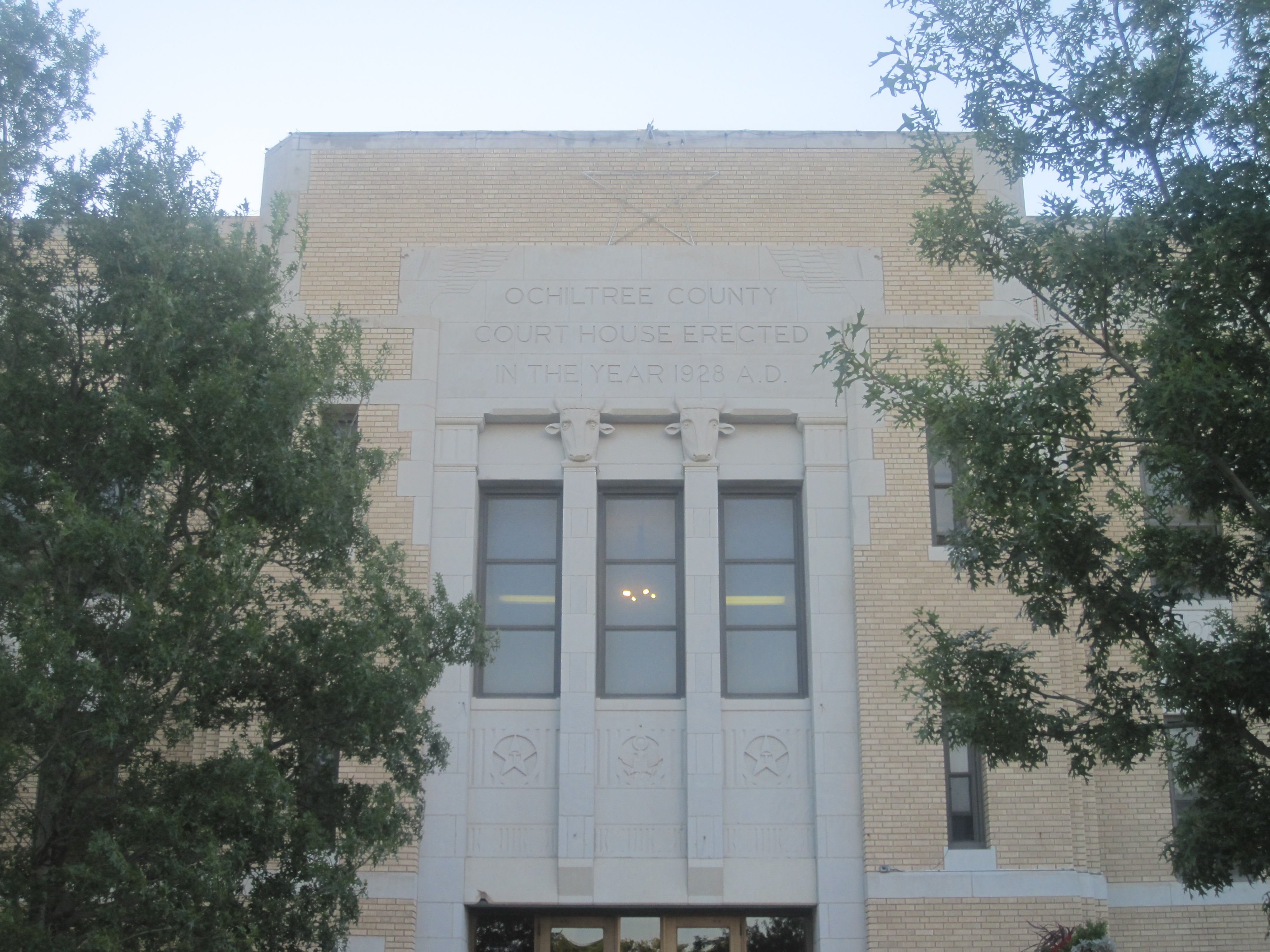 Ochiltree County Courthouse. I took photo with Canon camera in Perryton, TX.